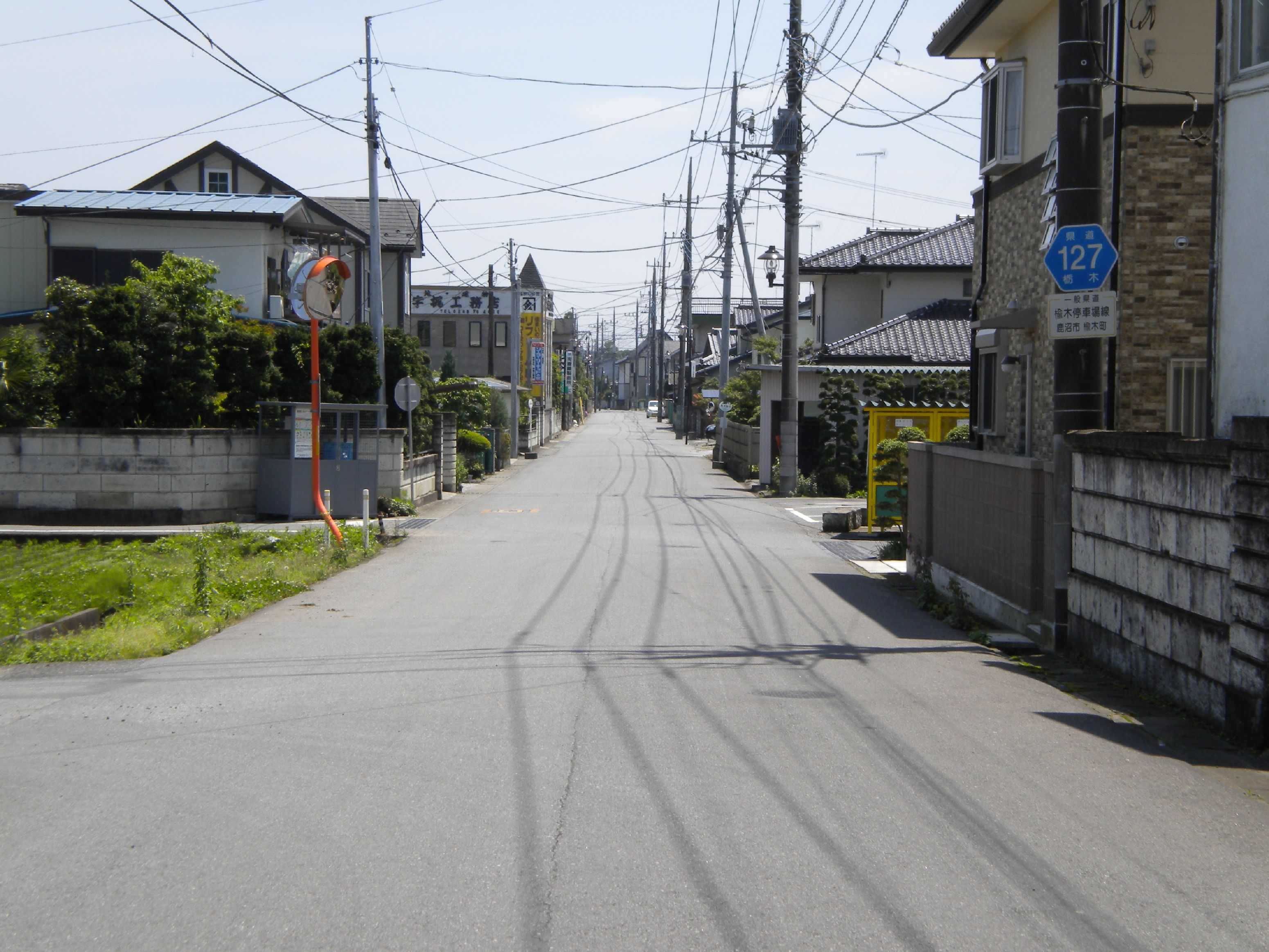 Tochigi prefectural road No.127 on Kanuma city